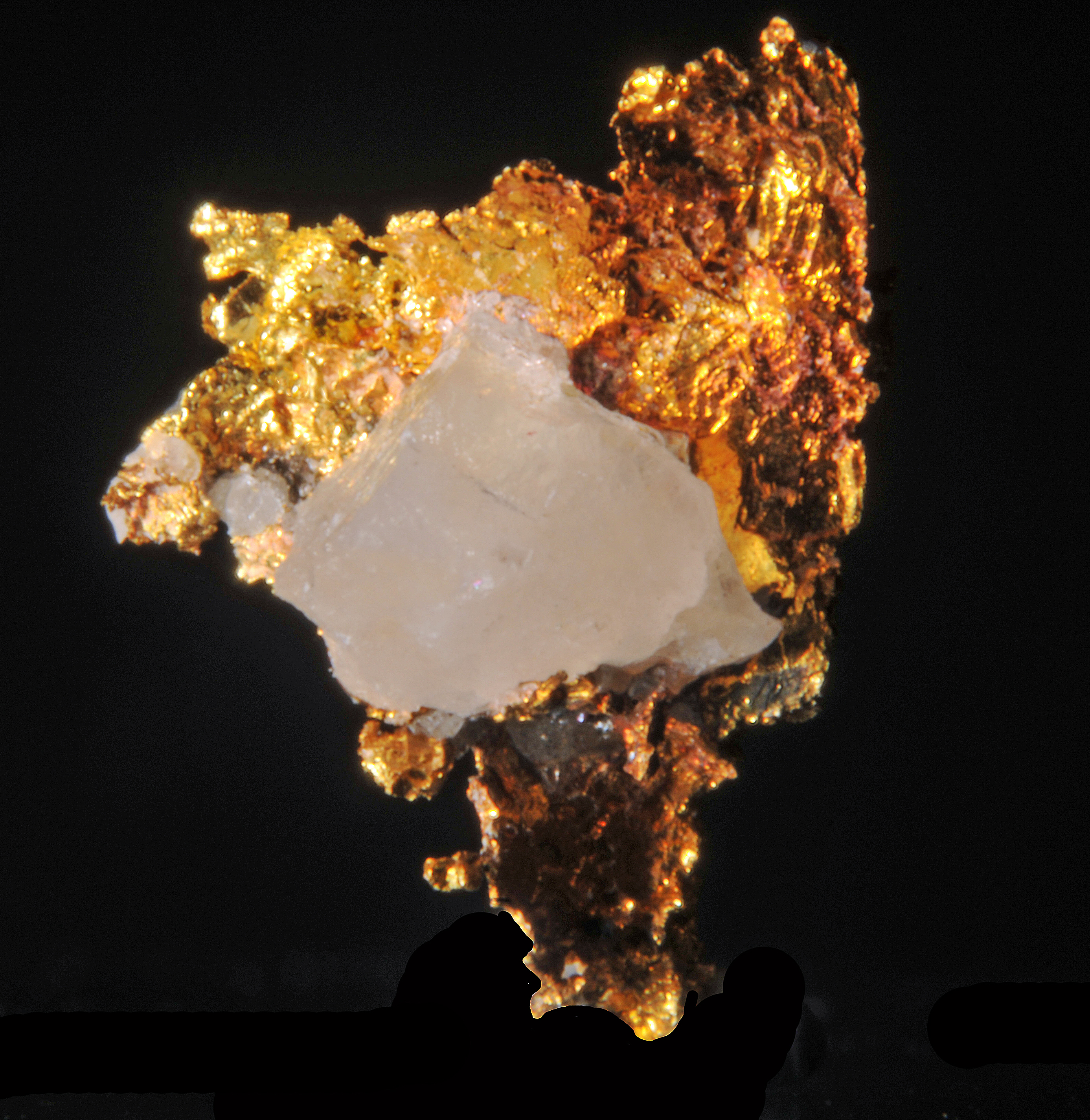 gold, crystals of quartz : Harvard Mine, Jamestown, Jamestown District, Mother Lobe belt, Tuolumne Co., California, USA